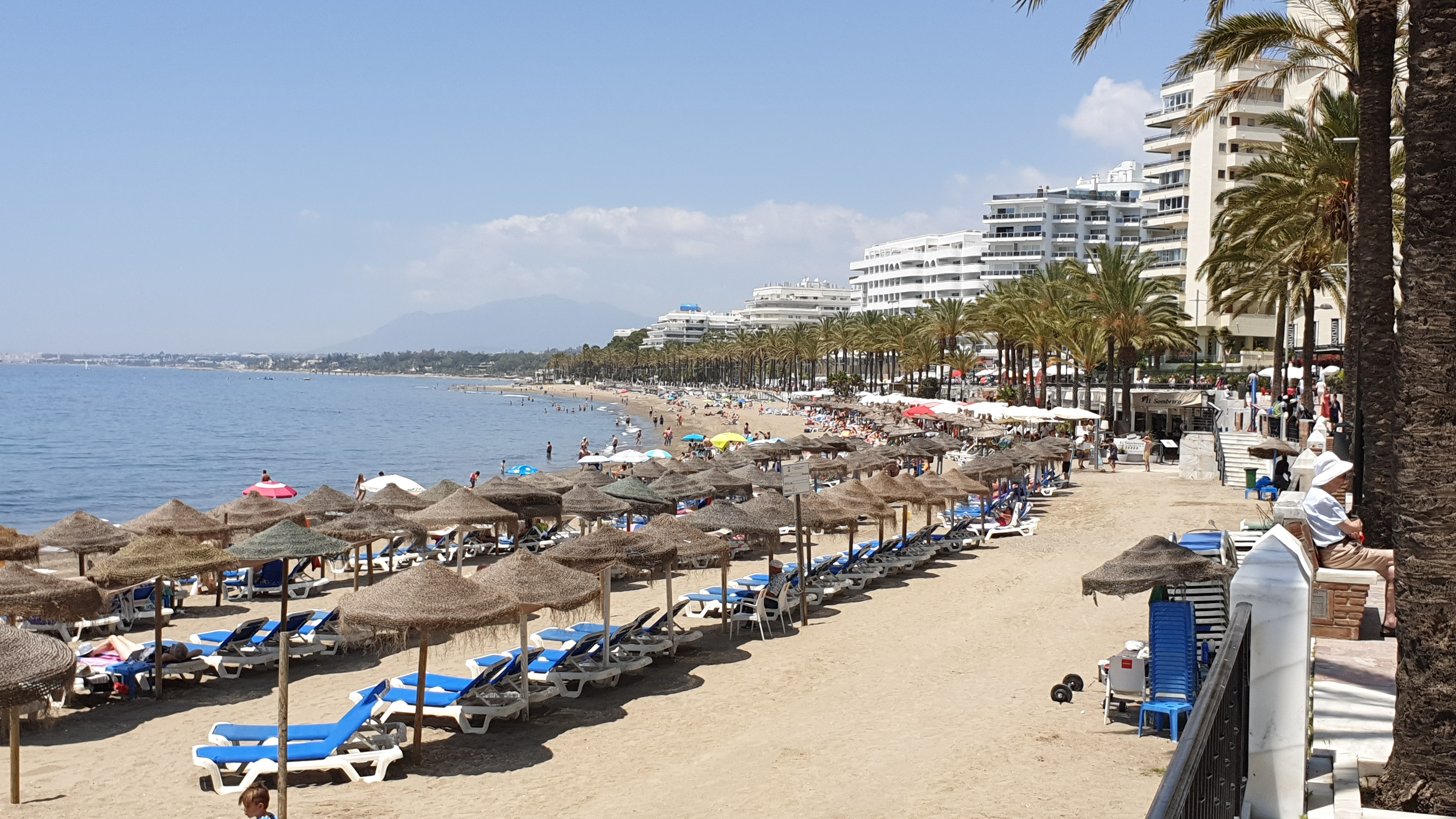 Marbella Beach June 2019